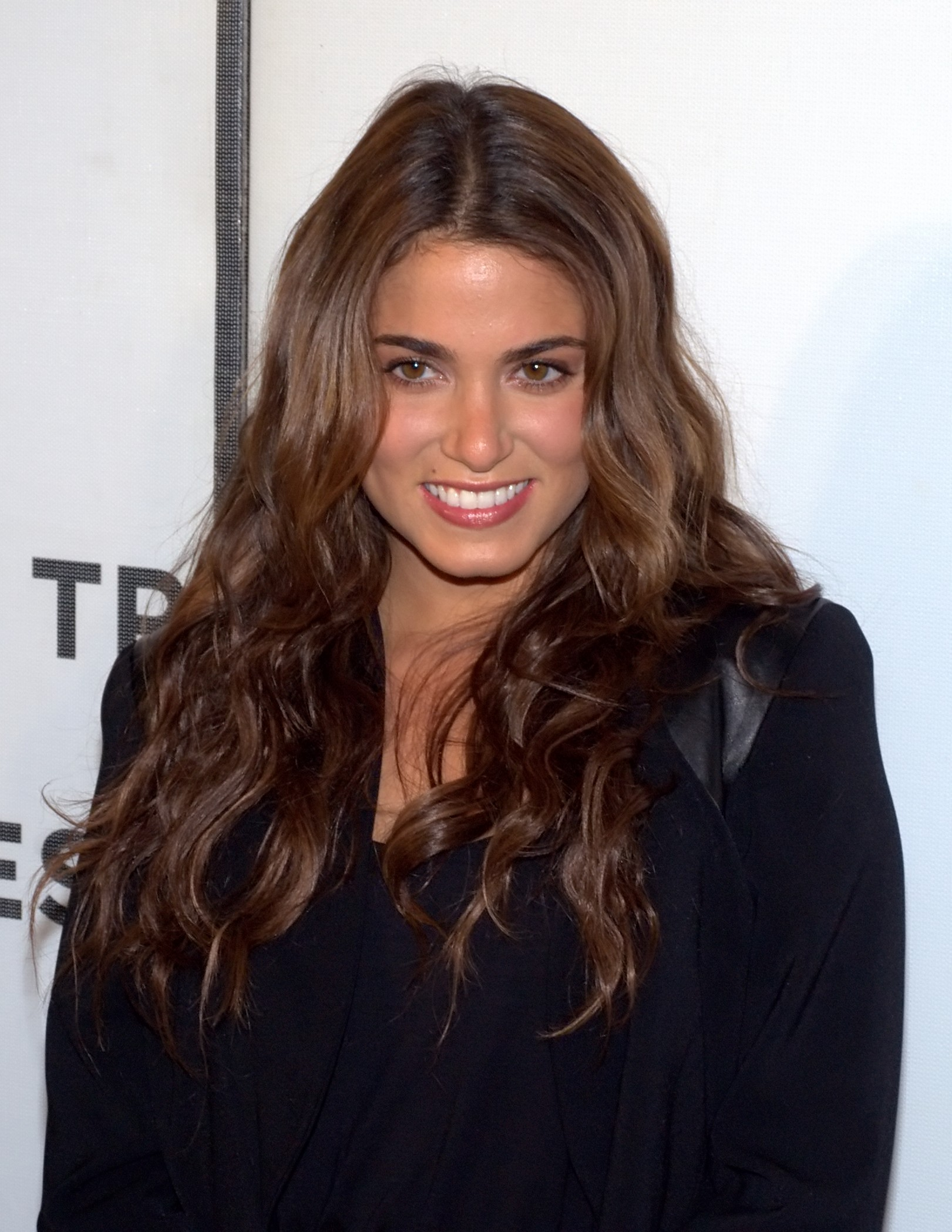 Nikki Reed at the premiere of Ondine at the 2010 Tribeca Film Festival.